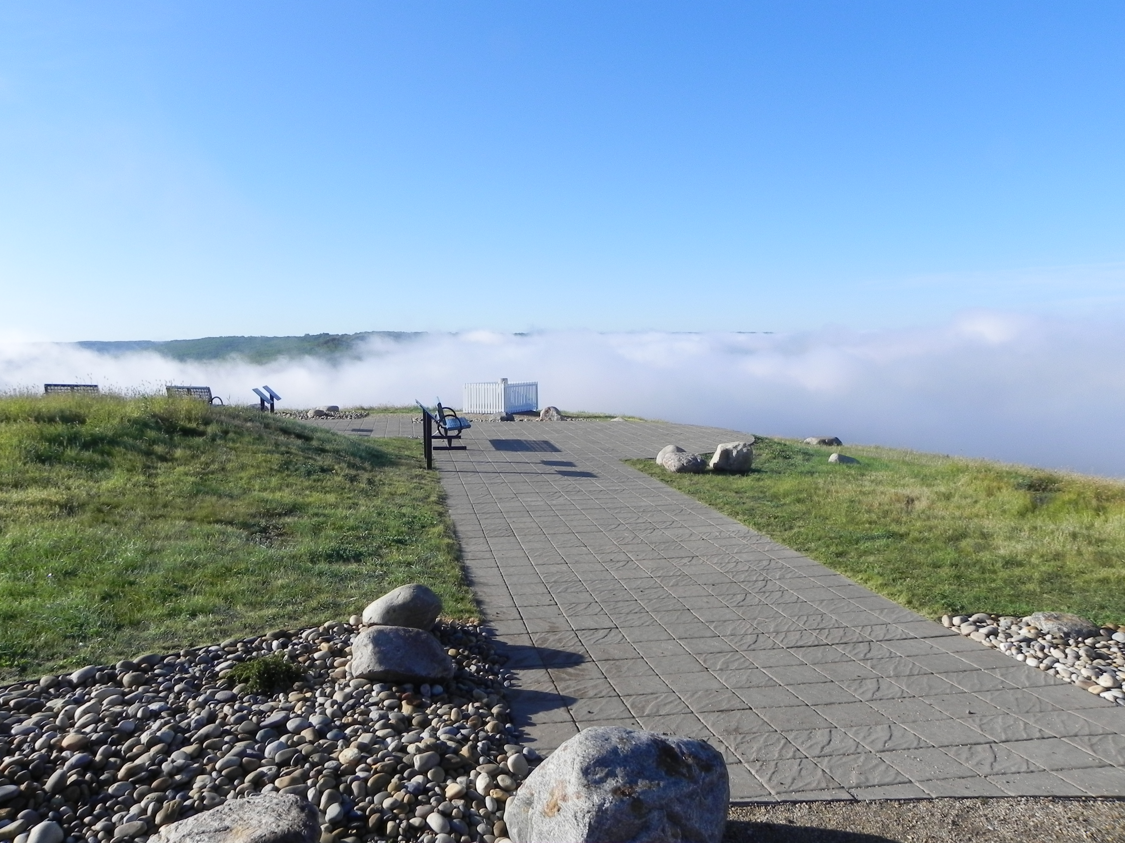 12 Foot Davis grave site atop Grouard Hill